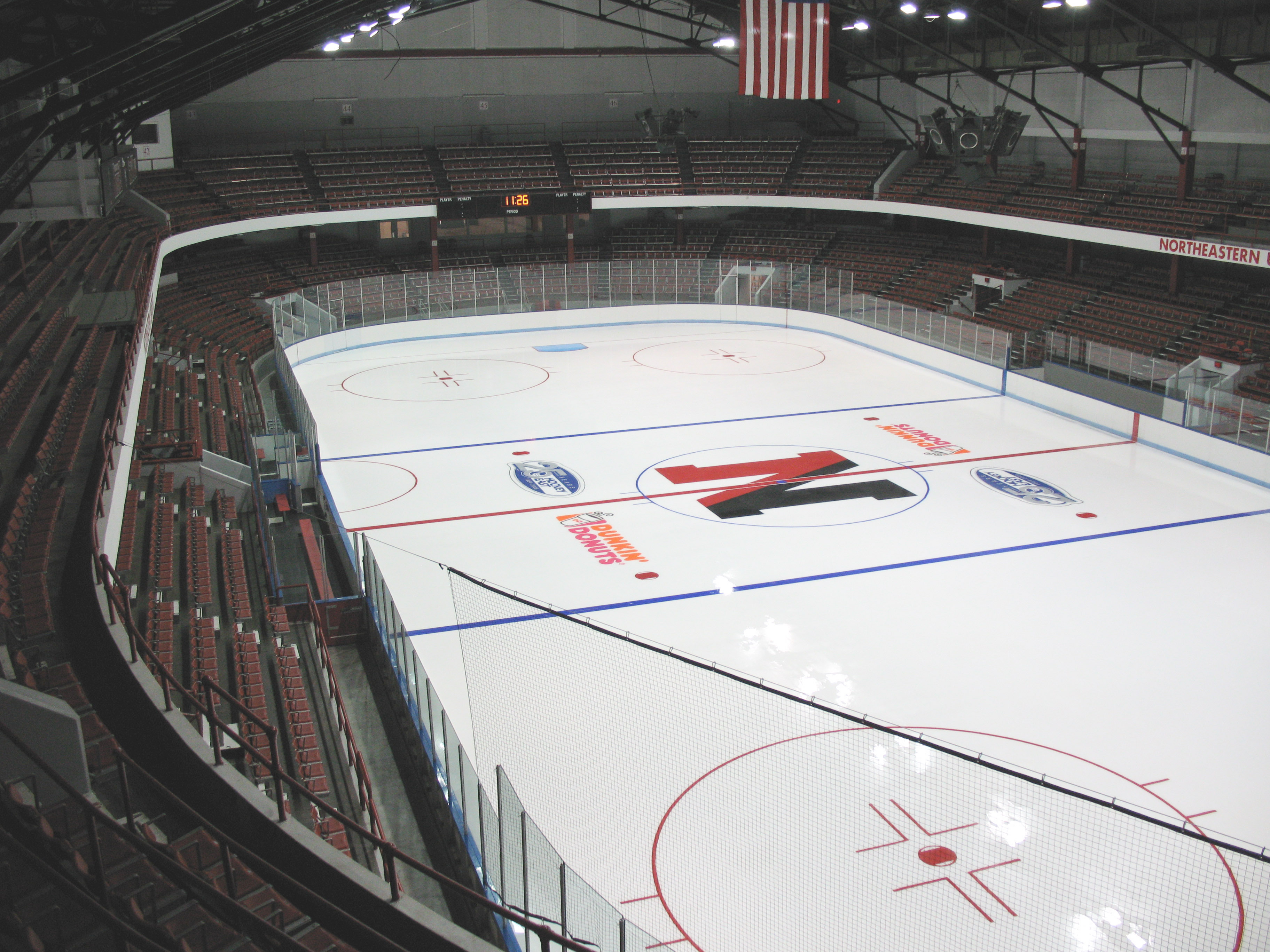 Interior Shot of Matthews Arena